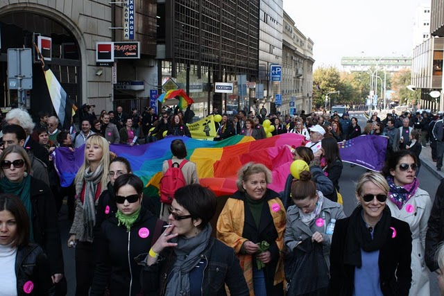 First successful gay pride parade in Belgrade.